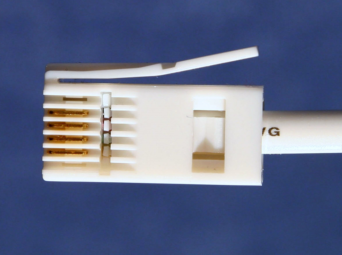 A photo of a British telephone connector Photograph by Duncan Martin and released into the public domain.